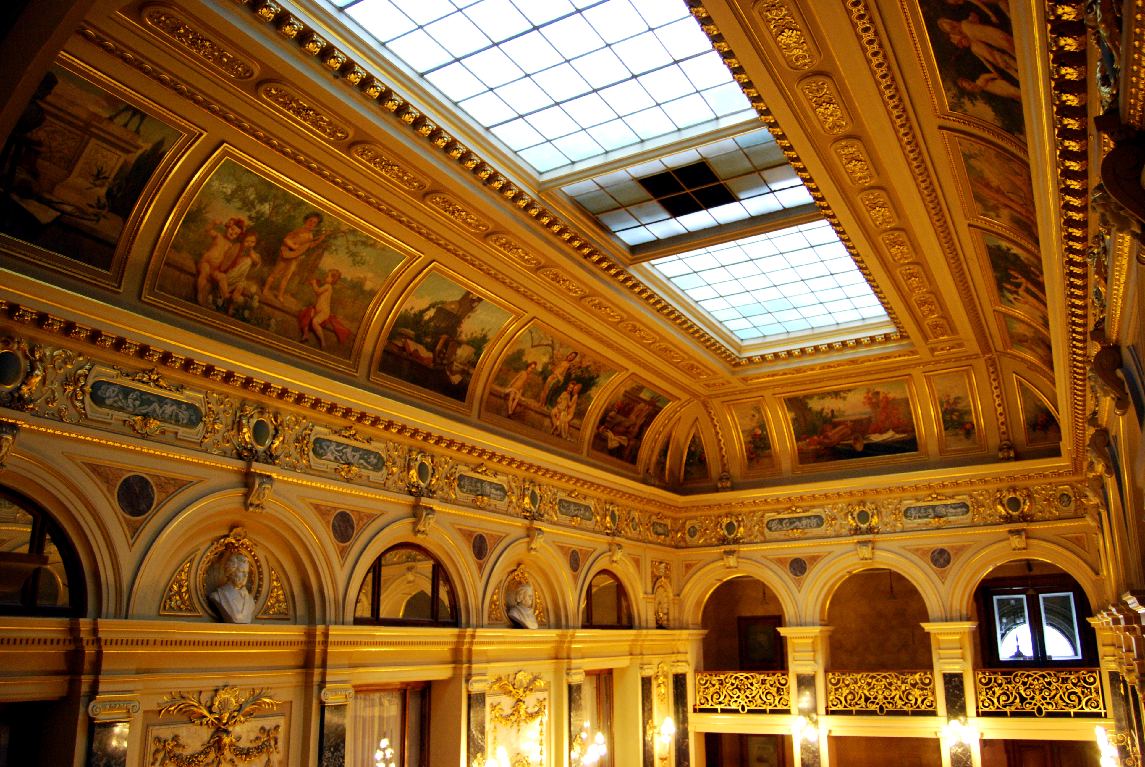 Lviv Theatre of Opera and Ballet